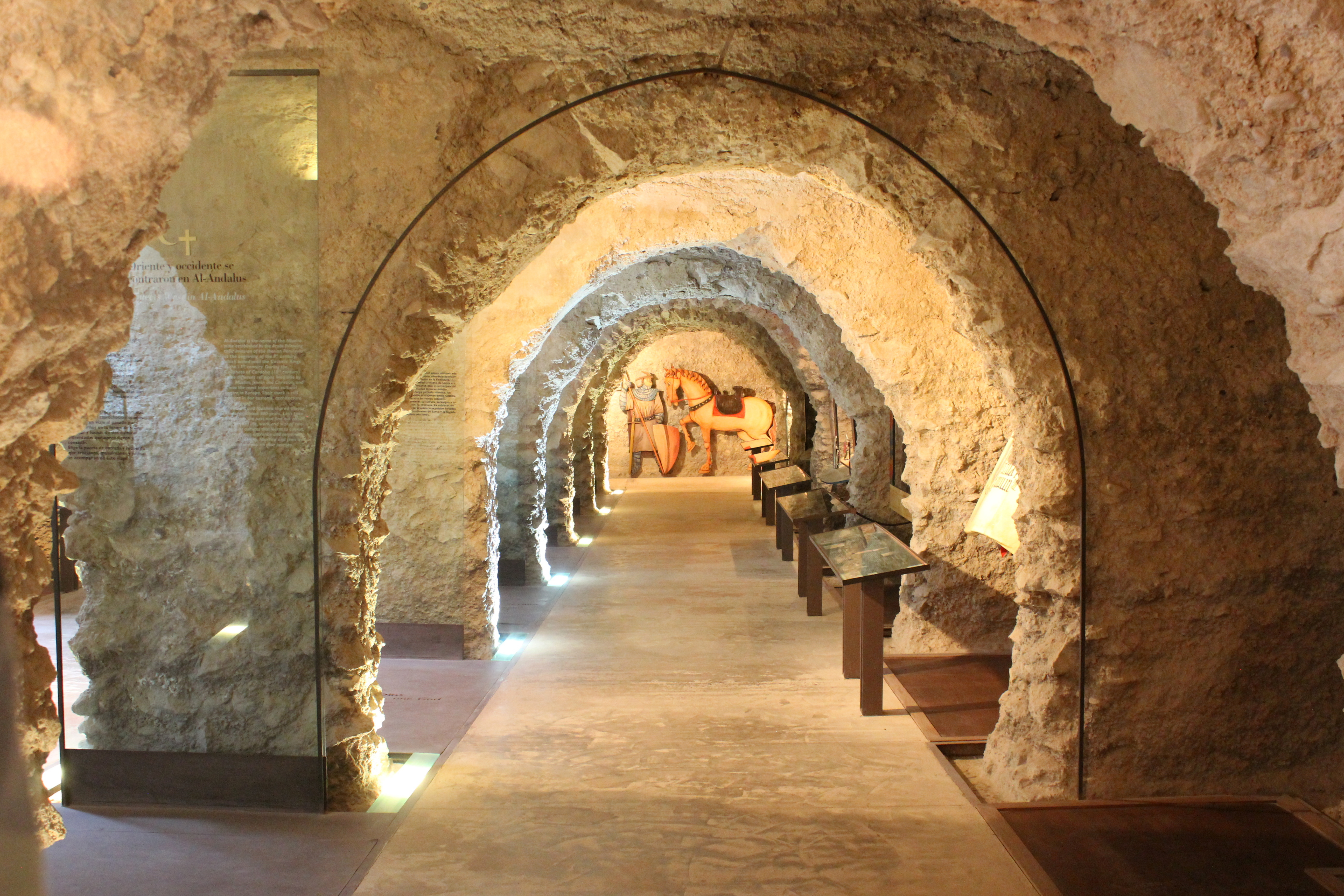 Northern half of the "Large cistern" (Aljibe grande), Lorca Castle, now converted into an exhibition centre. The whole cistern is about 25 metres in length. The size of the cistern, which dates back to the Middle Ages, enabled the castle to withstand long sieges.